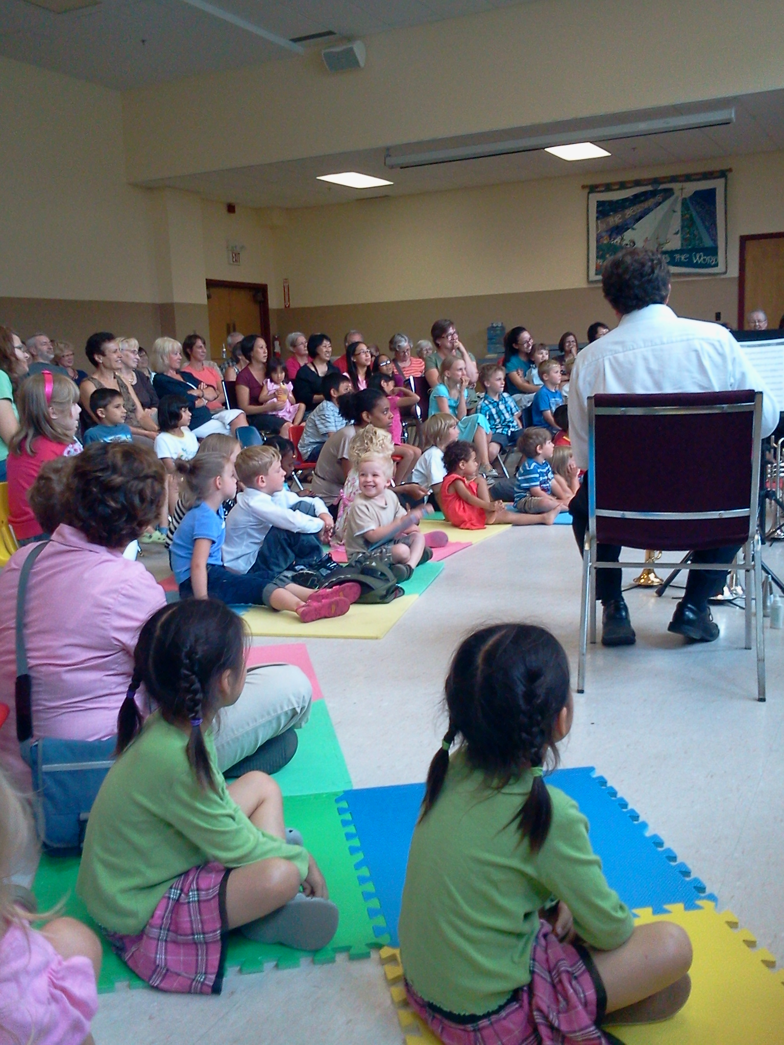 The Bring the Kids event hosted by Ottawa Chamberfest featuring True North Brass. This was the largest Bring the Kids event in the 18 year history of Ottawa Chamberfest.